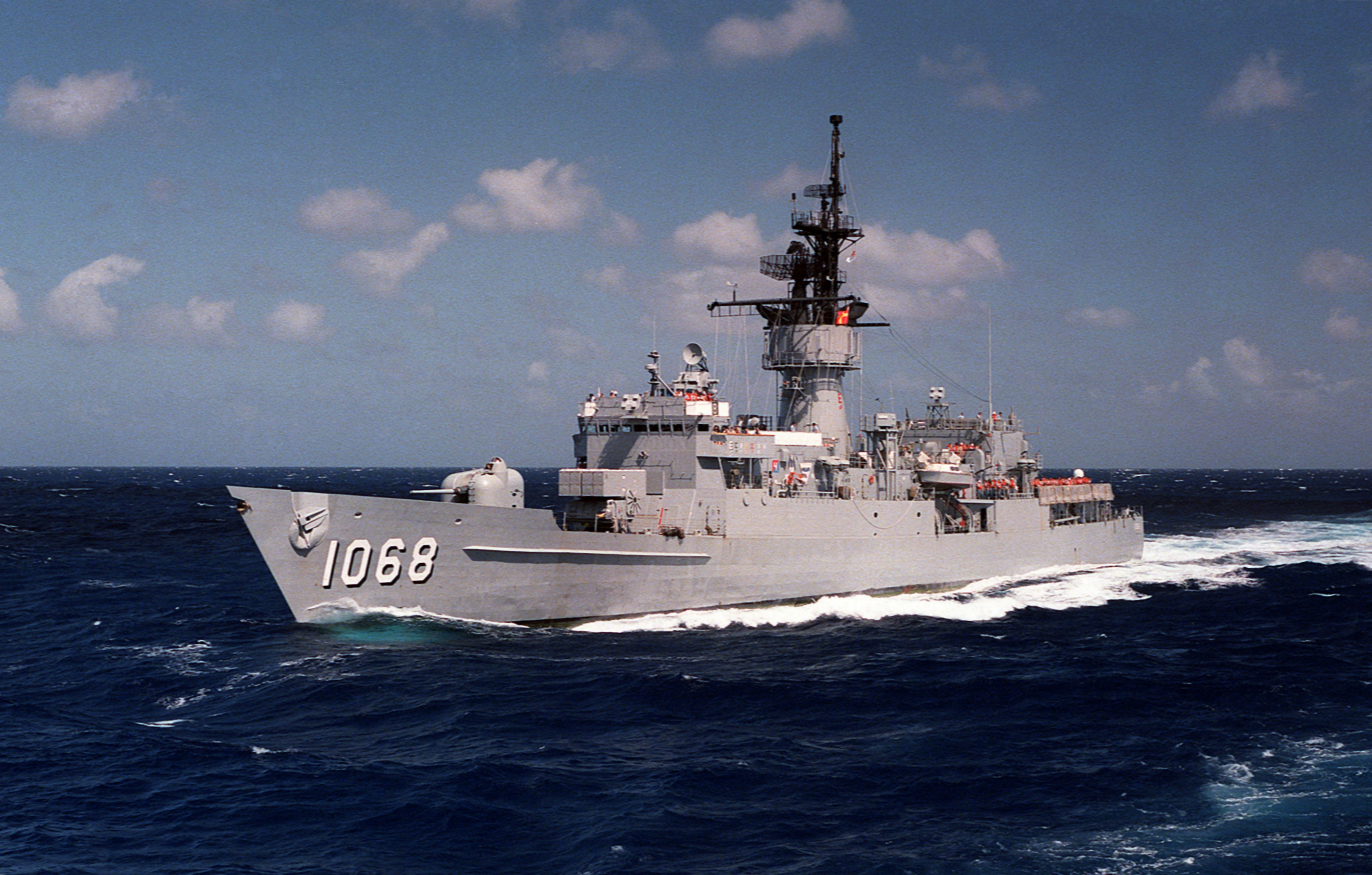 The U.S. Navy frigate USS Vreeland (FF-1068) underway, in 1987.